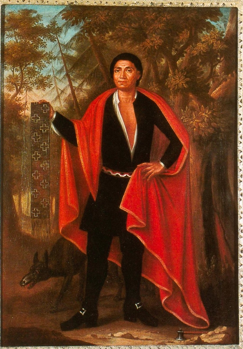 Hendrick Tejonihokarawa